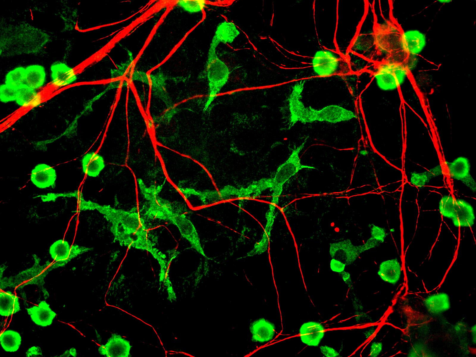 Mixed rat brain cultures stained for coronin 1a, found in microglia here in green, and alpha-internexin, in red, found in neuronal processes. Antibodies and image generated by EnCor Biotechnology Inc.